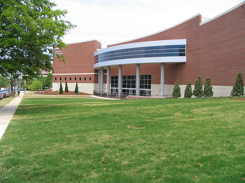 UAB Recreation Center